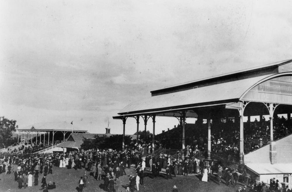 Grandstand at Eagle Farm Racecourse, Brisbane, ca. 1914 The grass and the grandstands at Eagle Farm Racecourse.